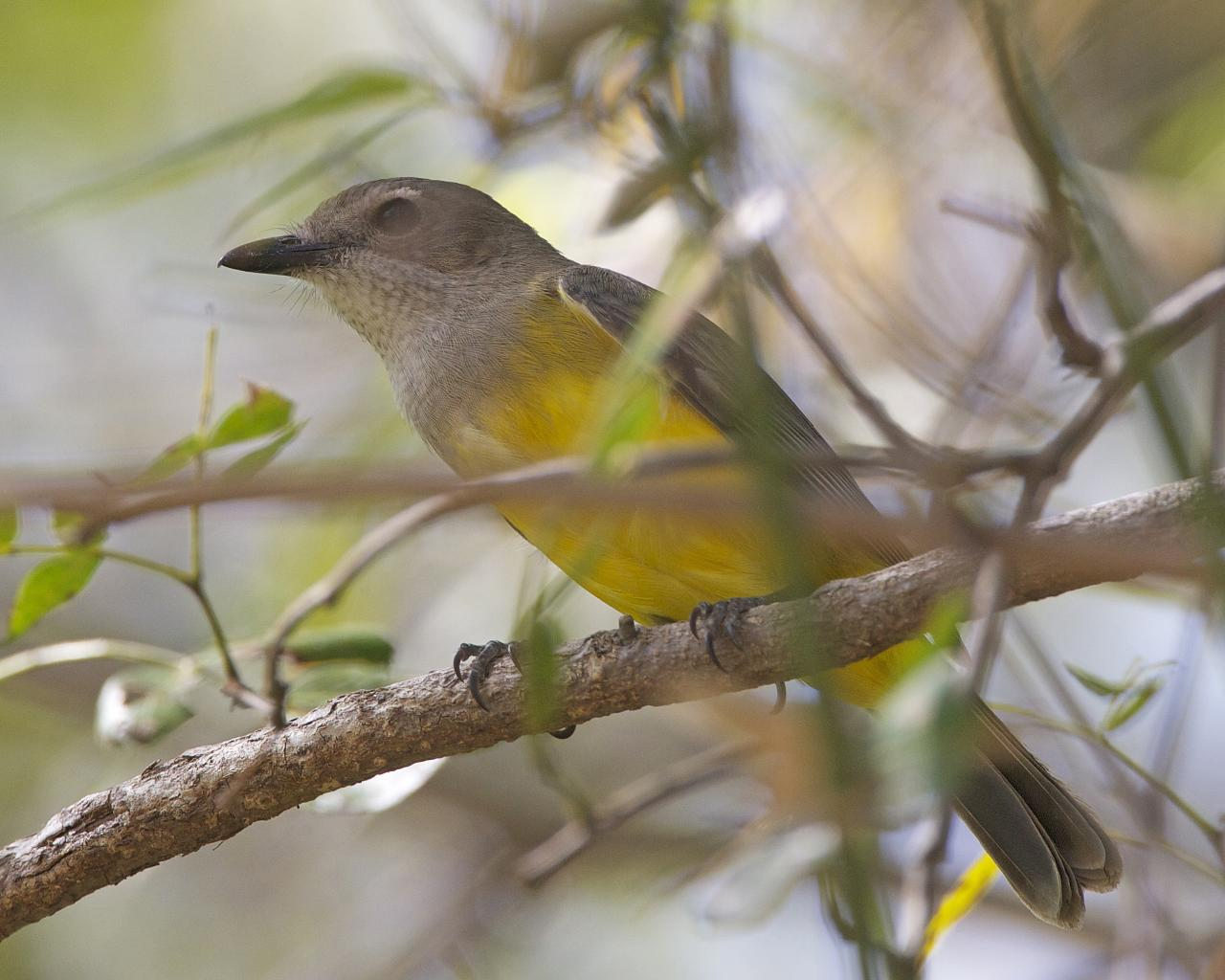 Female Black-tailed Whistler, or Mangrove Golden Whistler (Pachycephala melanura) ssp robusta. Northern Territory, Australia